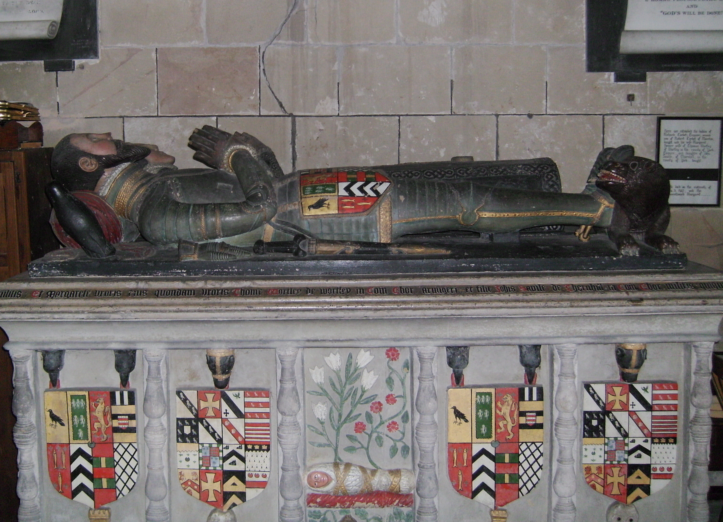 Church of St Bartholomew, Moreton Corbet, Shropshire. Tomb of Richard Corbet (died 1566) and his wife, Margaret Savile.